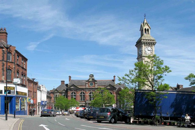 Tunstall